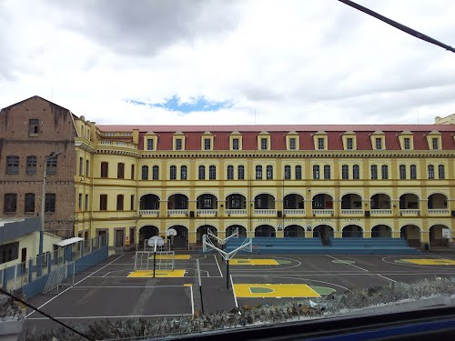 San José-La Salle College in Quito-Ecuador